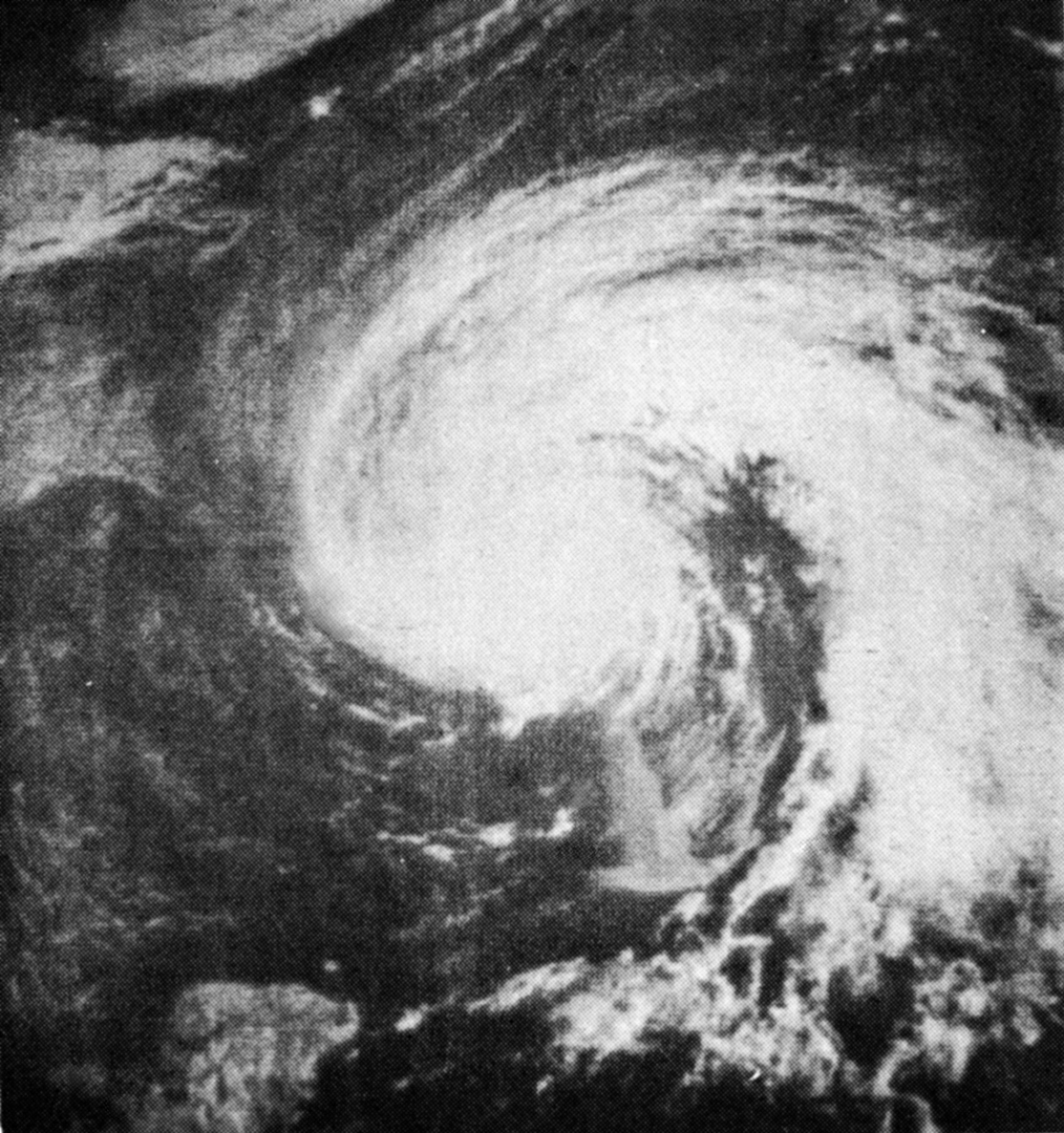 This image shows Hurricane Alma in the Gulf of Mexico as a strengthening hurricane.